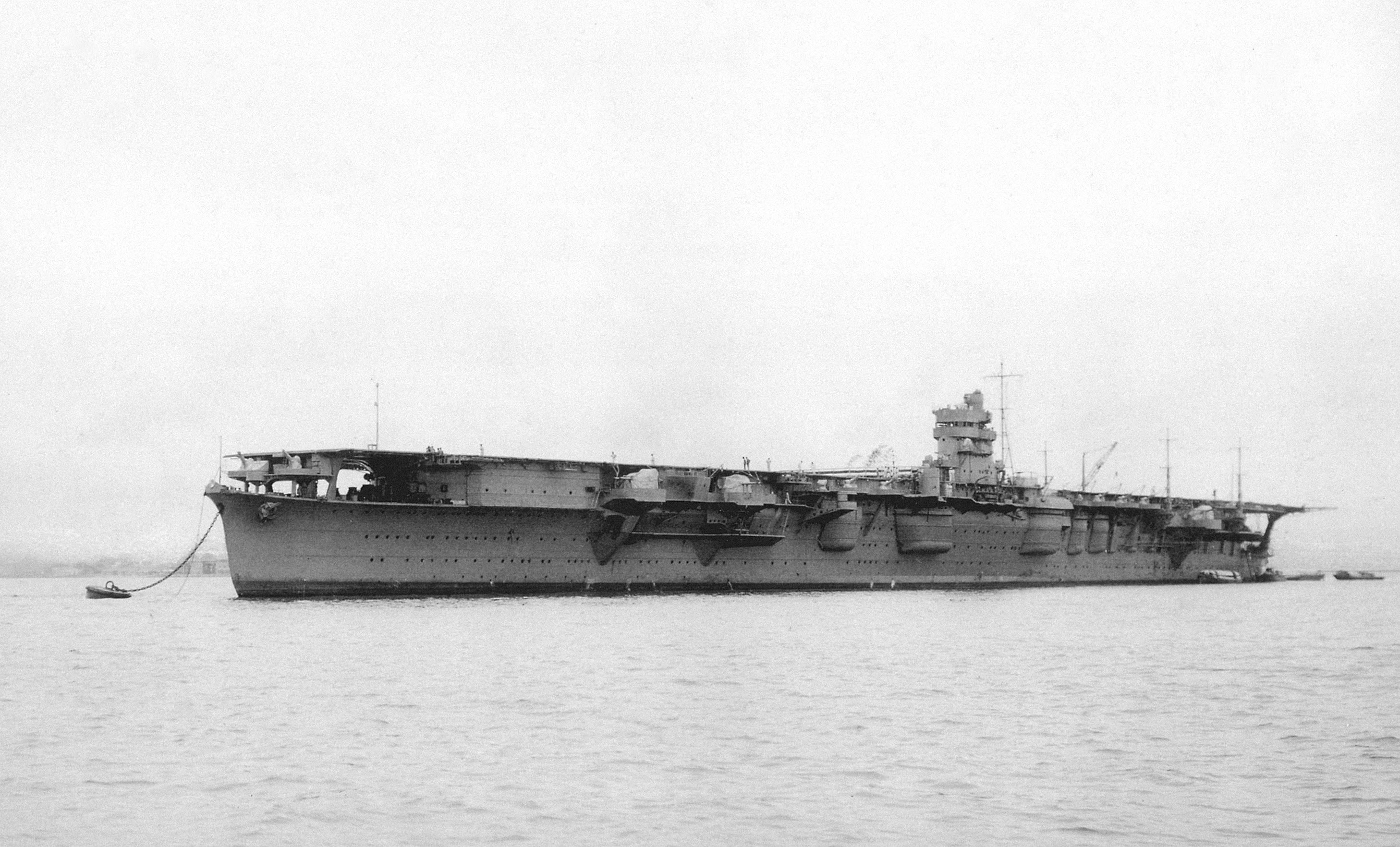 日本海軍航空母艦「飛龍」横須賀軍港にて工事完了後の写真。(A photo of the construction after the completion Japanese Navy aircraft carrier "Hiryu" in Yokosuka naval port.)